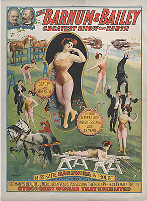 Barnum & Bailey poster advertising Sandwina Other information